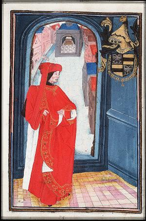 Statuts, Ordonnances et Armorial de l'Ordre de la Toison d'Or (Statutes, Ordonnances and armorial of the Order of the Golden Fleece) Place of origin, date: Southern Netherlands; 1473. Added sections: Southern Netherlands; 1478 or shortly after and 1491 or shortly after Material: Vellum, ff. 86, 249x187 (167x106) mm, 23 lines, littera cursiva (lettre bourguignonne). French. Binding: 18th-century brown leather Decoration: 1 full-page miniature (170x115 mm) with border decoration; 92 miniatures (185/155x120/100 mm); 1 historiated initial (80x90 mm) with border decoration; decorated initials with border decoration (ff., Added section: miniatures ; 4 drawings for miniatures (not finished) Provenance: Presented in 1473 by Gilles Gobet, King of Arms of the Order of the Golden Fleece, to Charles the Bold, Duke of Burgundy and the other Knights during the Chapter of the Order held at Valenciennes; Treasure of the Golden Fleece, Brussls; taken away by the Treasurer C.-F. Humyn (d. 1735) or his daughter C.Ch. de Corte; by legacy to her daughter M.-L. de Corte, wife of Ph.-E. de Poederlé; purchased in 1781 at the Poederlé sale by G.-J- Gérard of Brussels; acquired in 1832 as part of the Gérard collection (no. A 27)